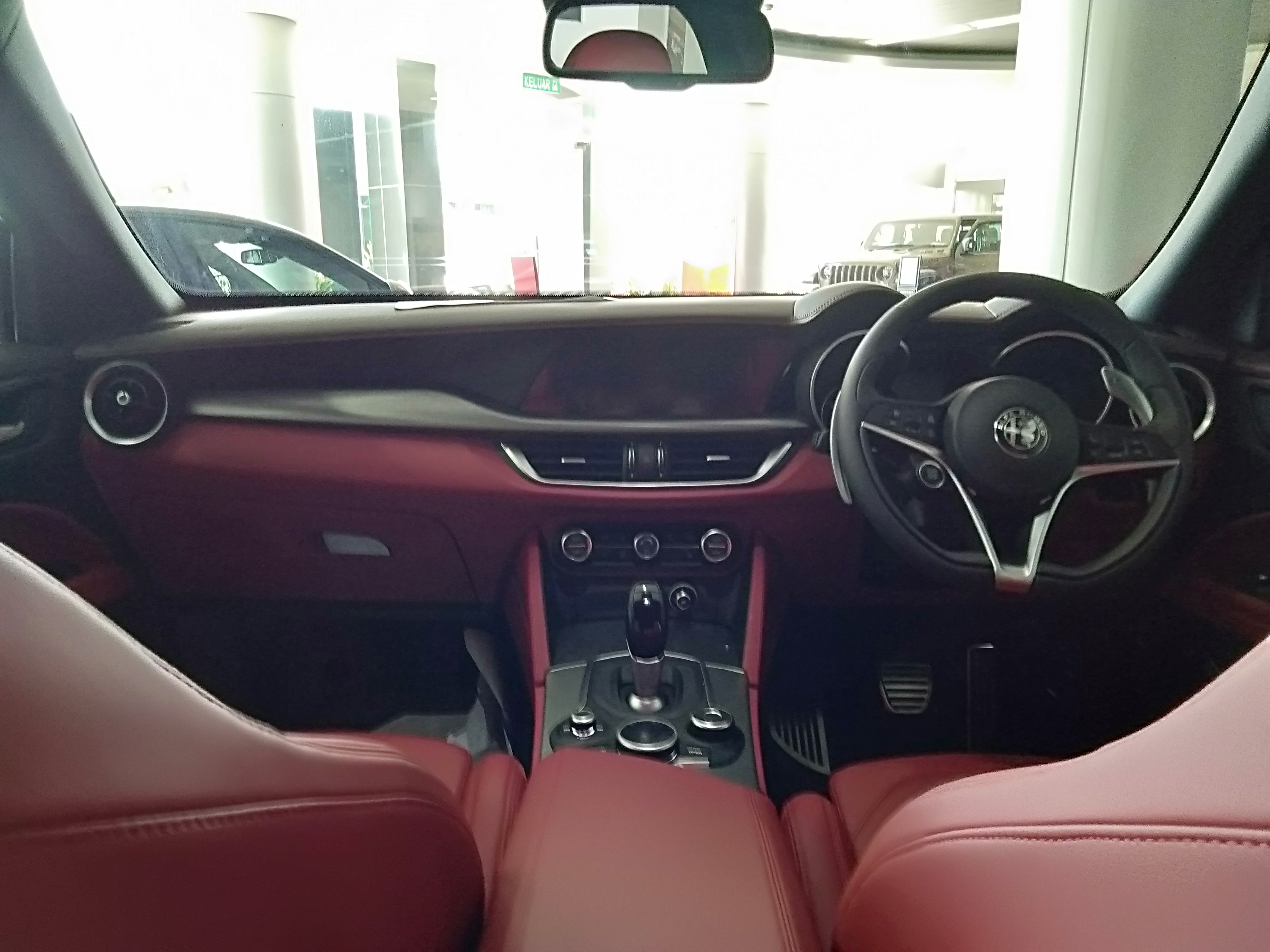 2021 Alfa Romeo Stelvio 2.0 Black interior view. Photographed at GHK Motors Sumbangsih Mulia, Beribi, Brunei.